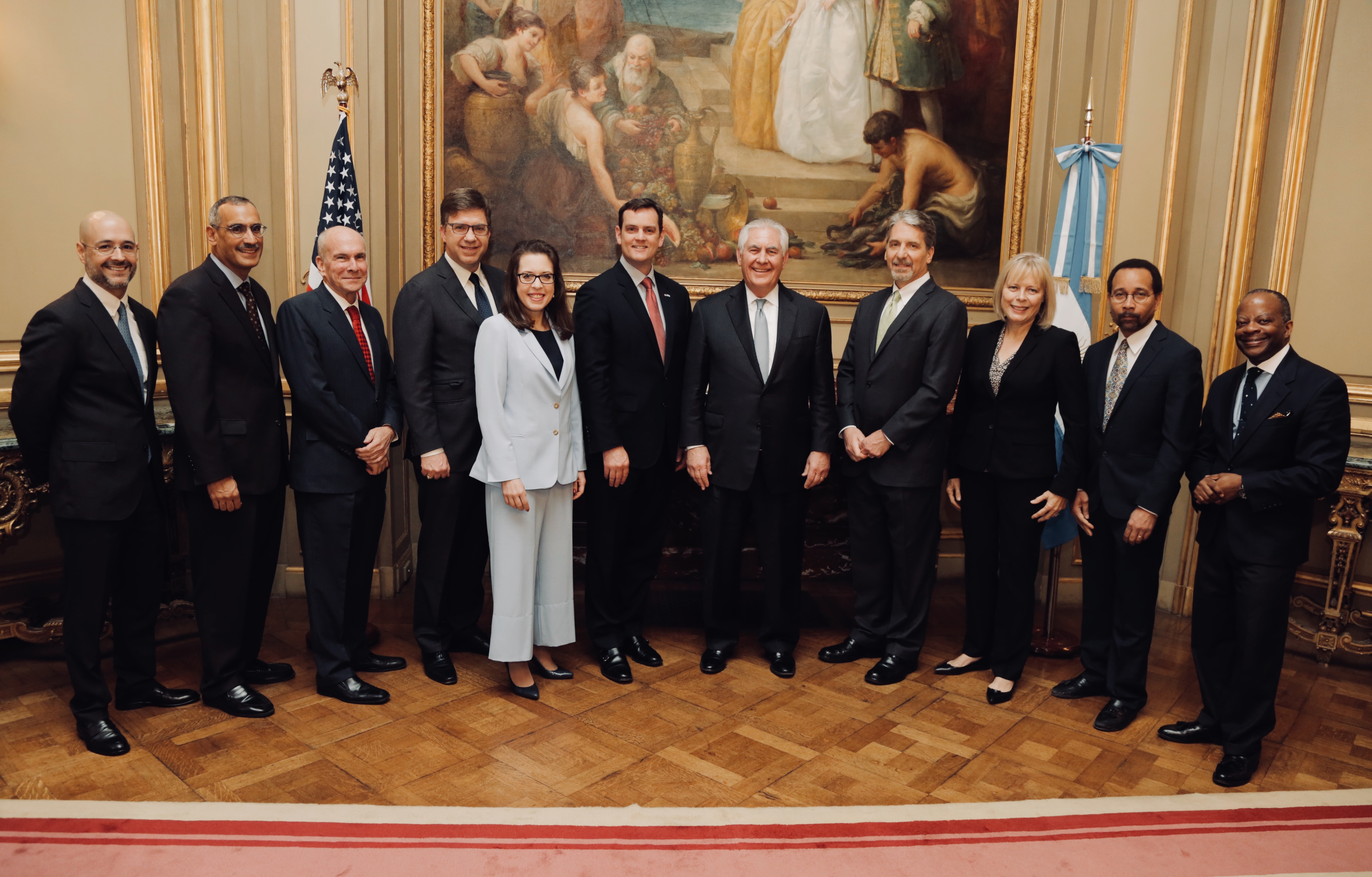 U.S. Secretary of State Rex Tillerson meets with ten U.S. Ambassadors and Chargé d'Affaires: Kelly Keiderling, U.S. Ambassador to Uruguay; Krishna R. Urs, U.S. Ambassador to Peru; P. Michael McKinley, U.S. Ambassador to Brazil; Todd C. Chapman, U.S. Ambassador to Ecuador; Kevin Whitaker, U.S. Ambassador to Colombia; Carol Z. Pérez, U.S. Ambassador to Chile; Tom Cooney, Chargé d’Affaires a.i., U.S. Embassy in Argentina; Hugo F. Rodríguez, Chargé d’Affaires a.i., U.S. Embassy in Paraguay; Todd Robinson, Chargé d’Affaires e.p., U.S. Embassy in Venezuela; Bruce Williamson, Chargé d’ Affaires, U.S. Embassy in Bolivia. The meeting took place during a regional Chiefs of Mission meeting in Buenos Aires, Argentina, on February 4, 2018. [State Department Photo/ Public Domain]